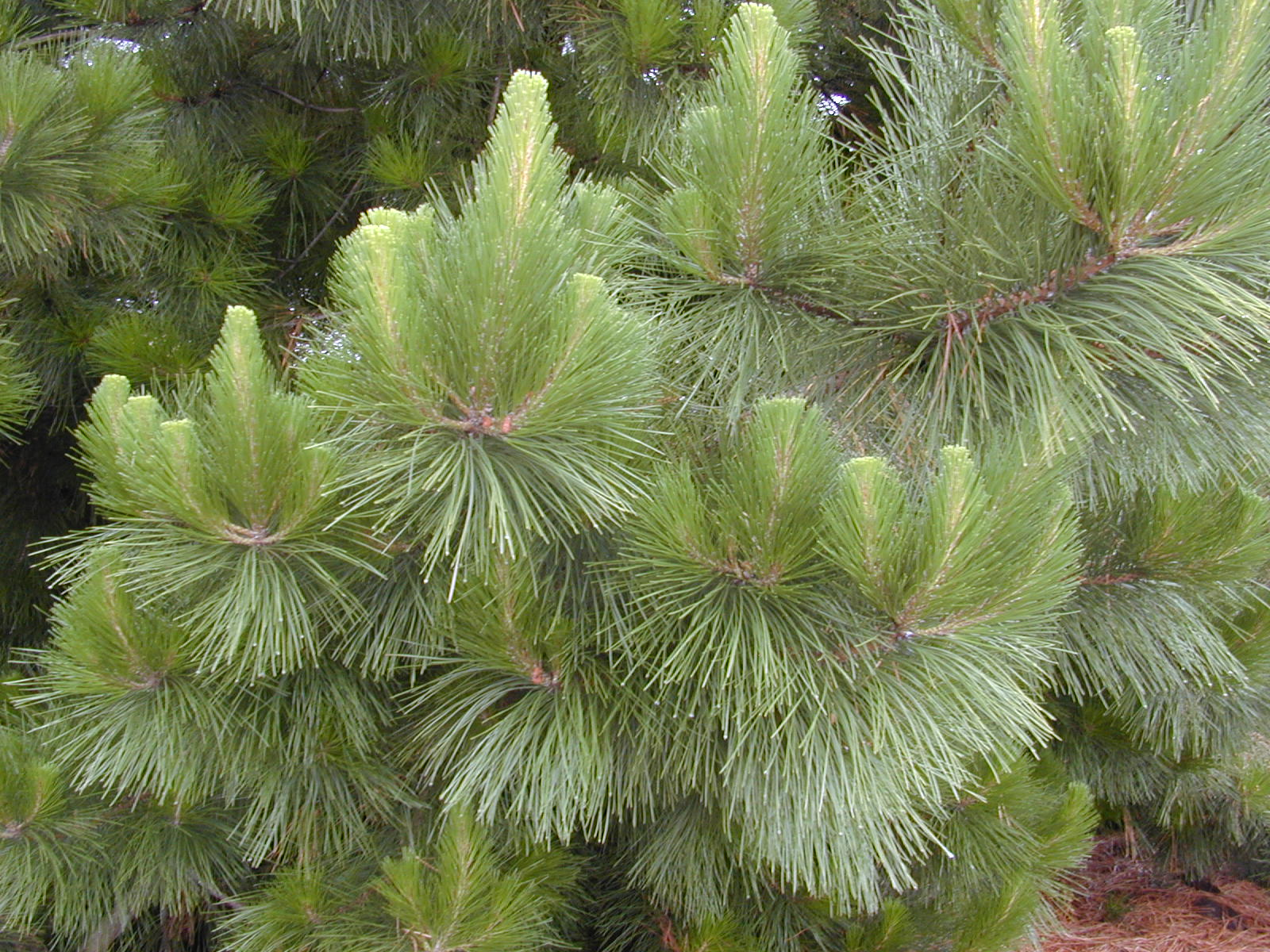 Pinus radiata (branches). Location: Maui, Polipoli